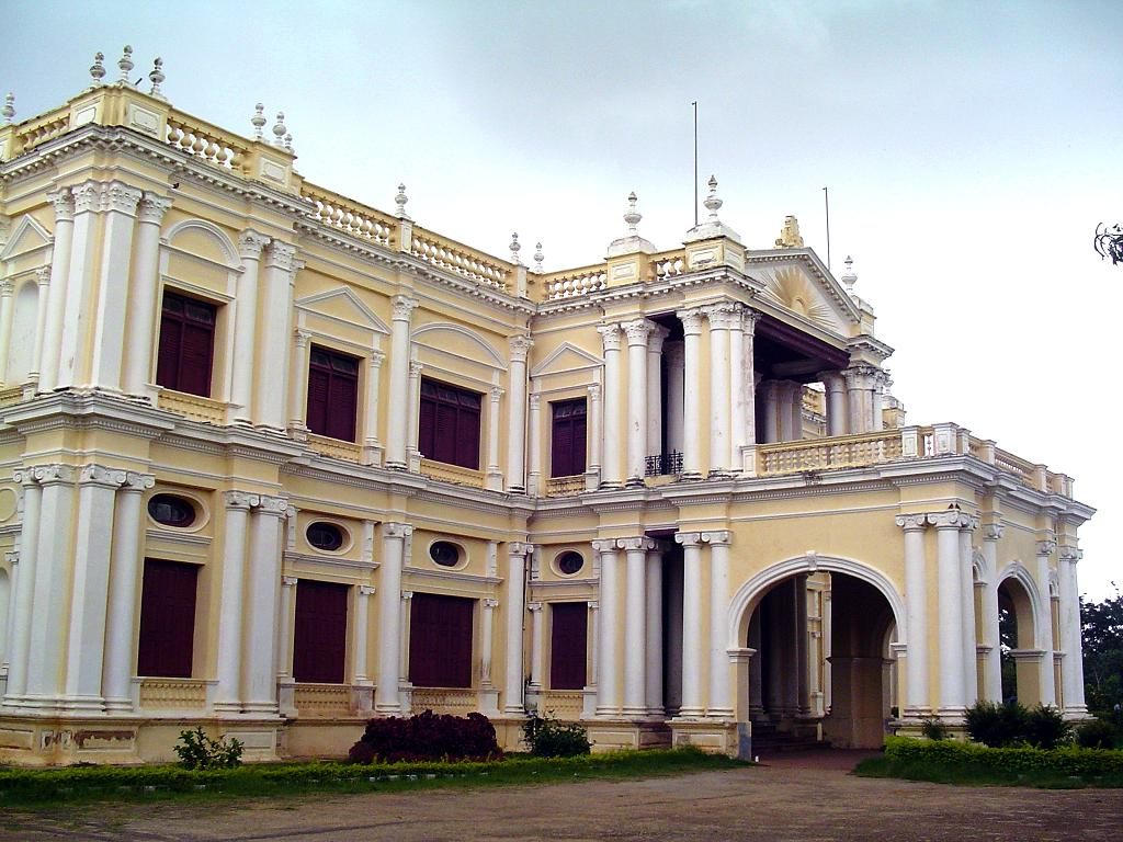 Photographed by Pratheepps